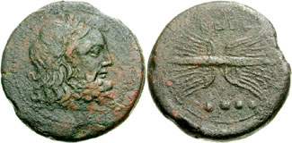 Campania, Capua. Circa 216-211 BC. Æ Quadrunx (24.48 g). Laureate head of Zeus right Winged thunderbolt; four pellets below. SNG France 485; SNG ANS 202; HN Italy 483. VF, mottled red and brown patina, surfaces a little rough. Rare. From the Tony Hardy Collection.